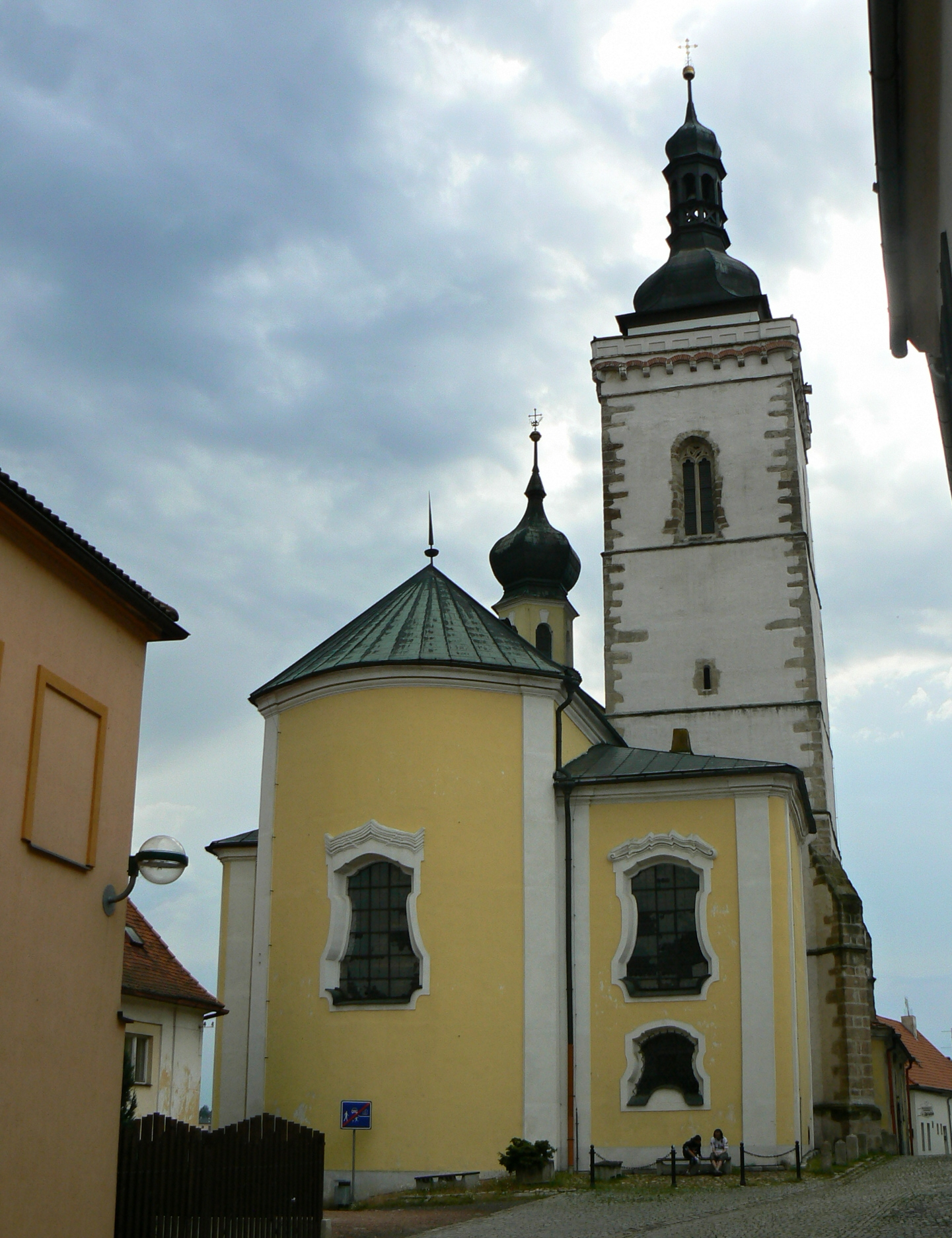 Church in town Stříbro in Tachov District in Czech Republic